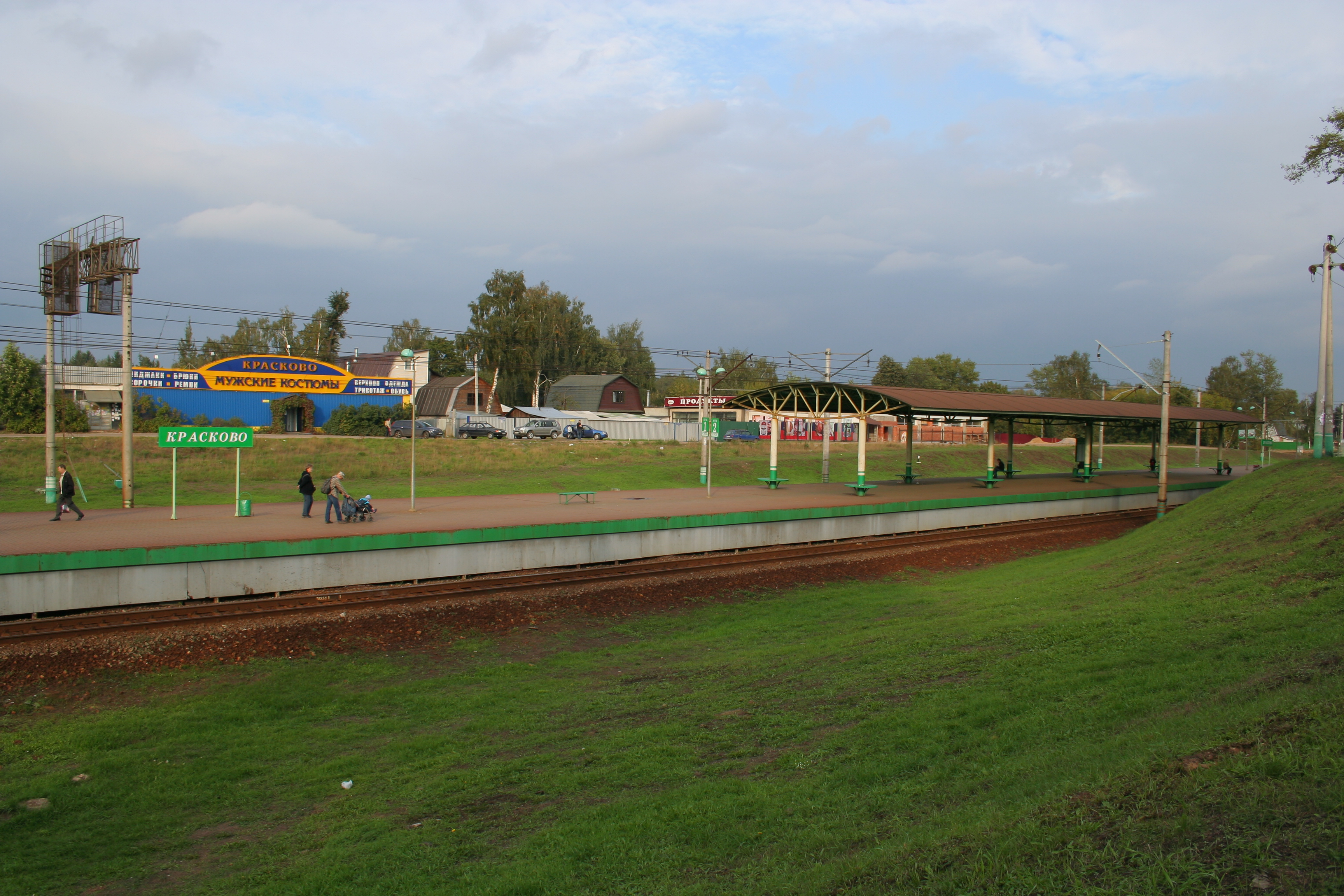 Train stop Kraskovo in Moscow Oblast